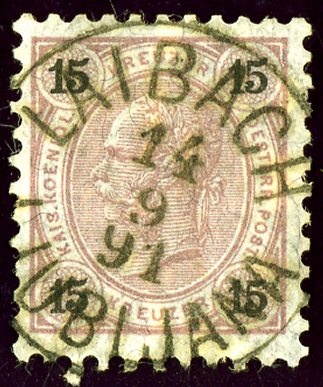 15 kr bi-lingually cancelled at Laibach Ljubljana in 1891